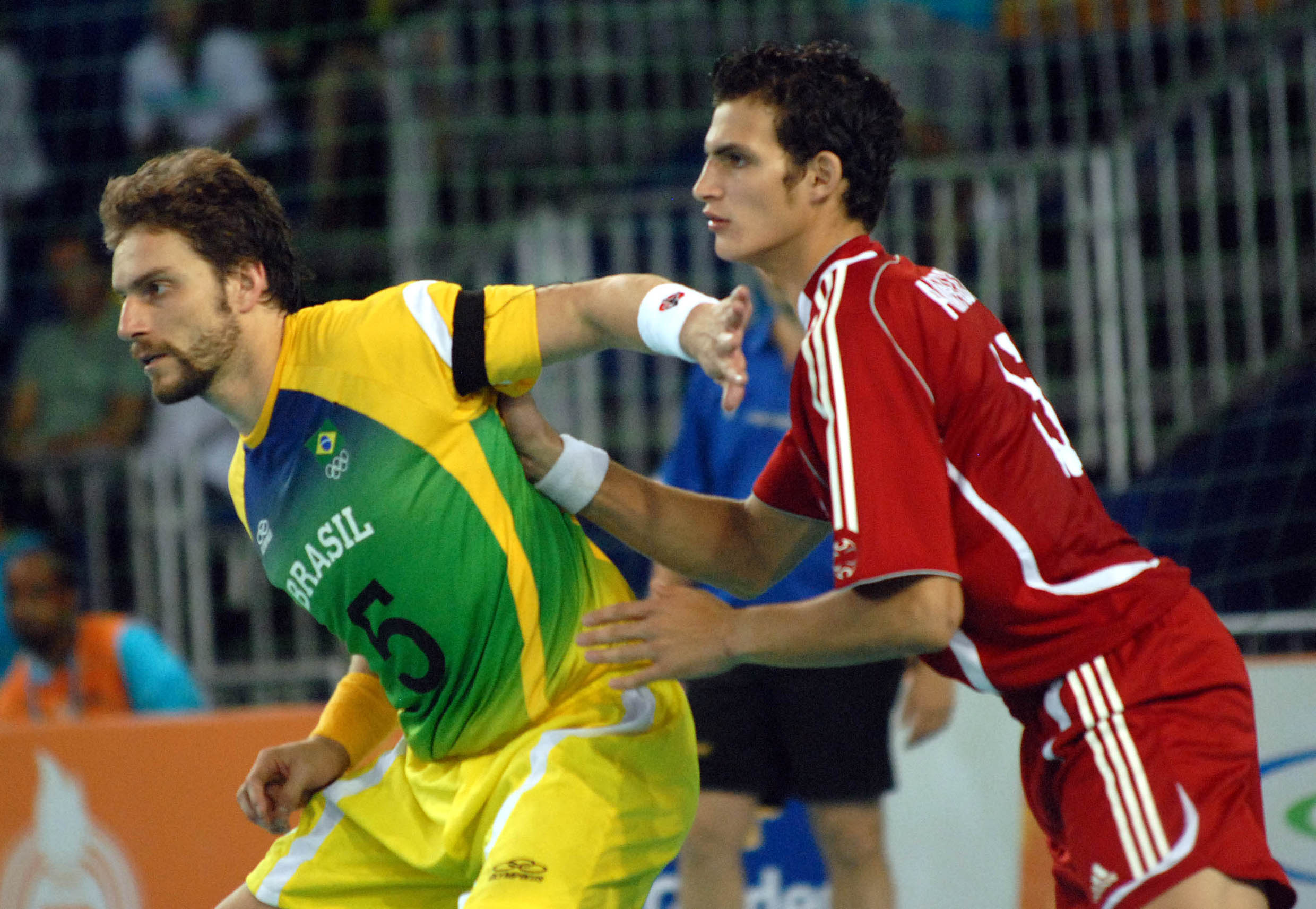 Brazilian handball players use a black ribbon in respect of the victims of a flight accident.